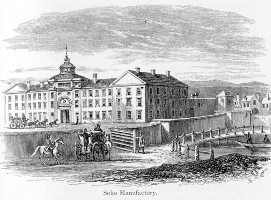 Woodcut of Soho Manufactory, contained in Samuel Smiles, Lives of Boulton and Watt. London: John Murray, 1865, page 169.